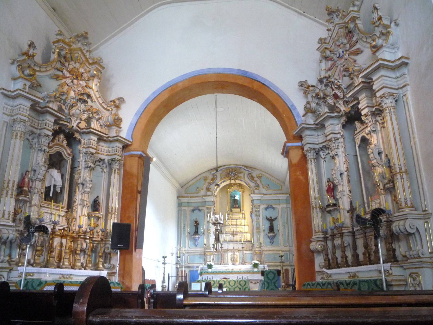 Interior of Nossa Senhora do Rosário Church (mid-18th century) in Paraty, Brasil